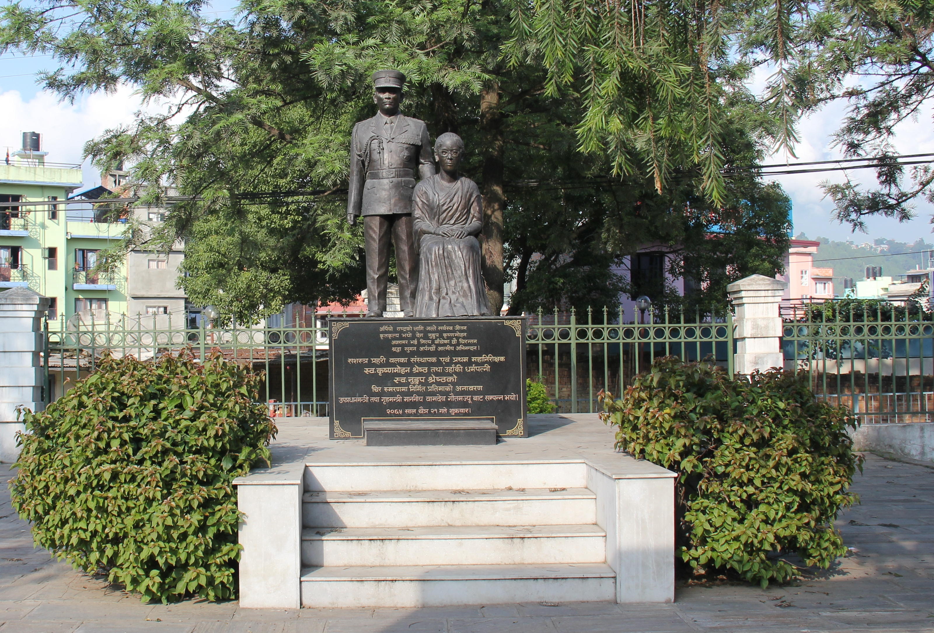 Statue of Krishnamohan and his wife Nudup at the place they were shut to death. The writing spells out his contribution for the Nation is immortal.